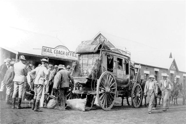 "Departure from Bulawayo of the Zeederberg Coach - circa 1896" (National Archives Salisbury No 1957)